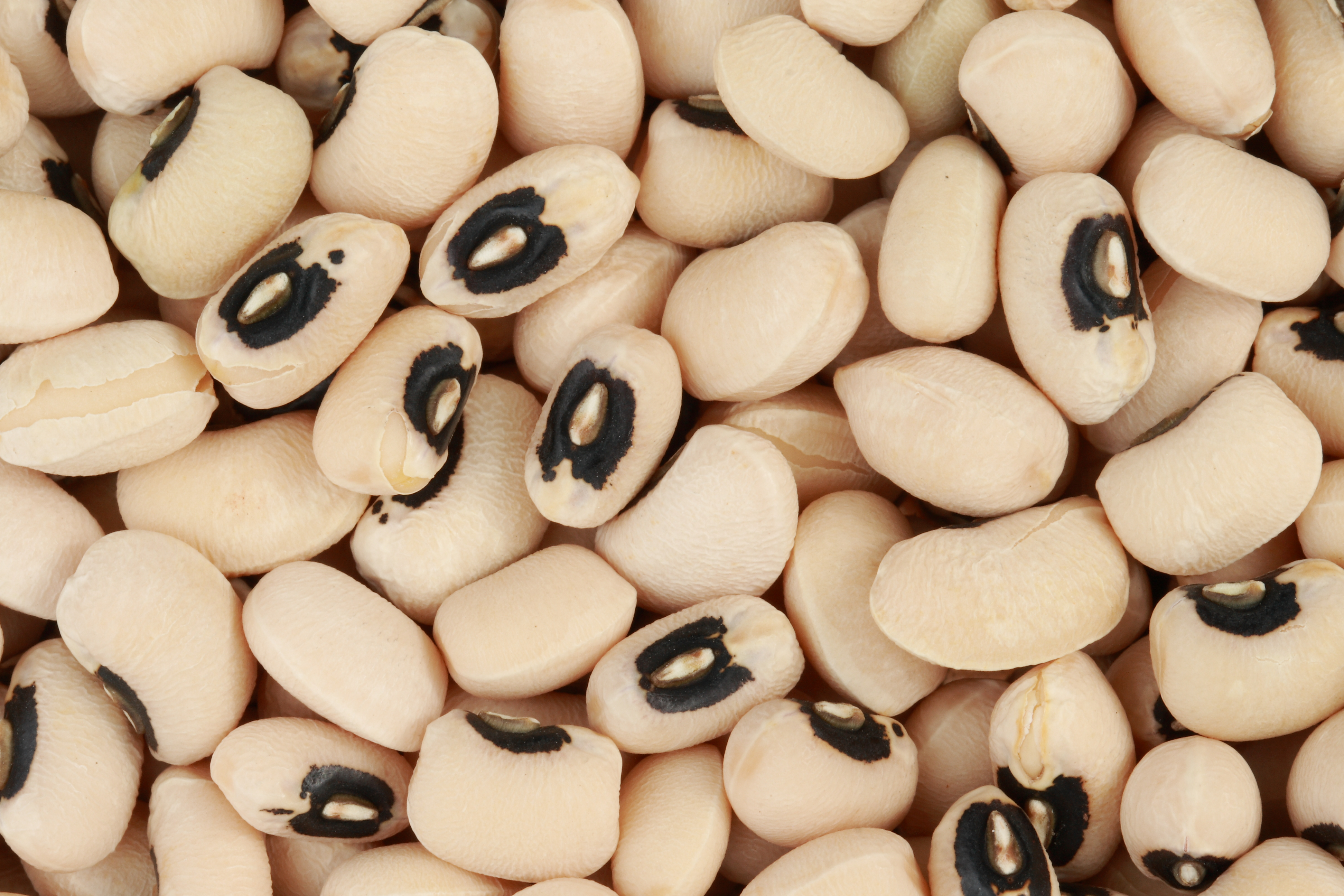 Black-eyed peas (Vigna unguiculata subsp. unguiculata).